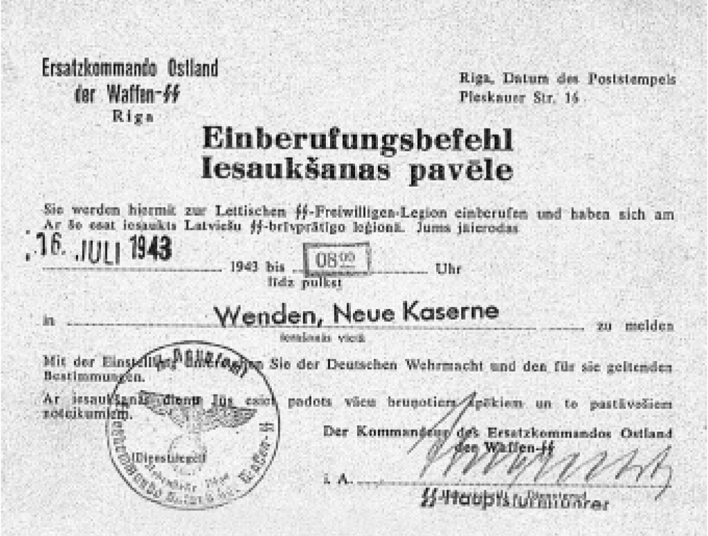 German Friewilligen Legion conscription form enforced within the occupied territory of Latvia